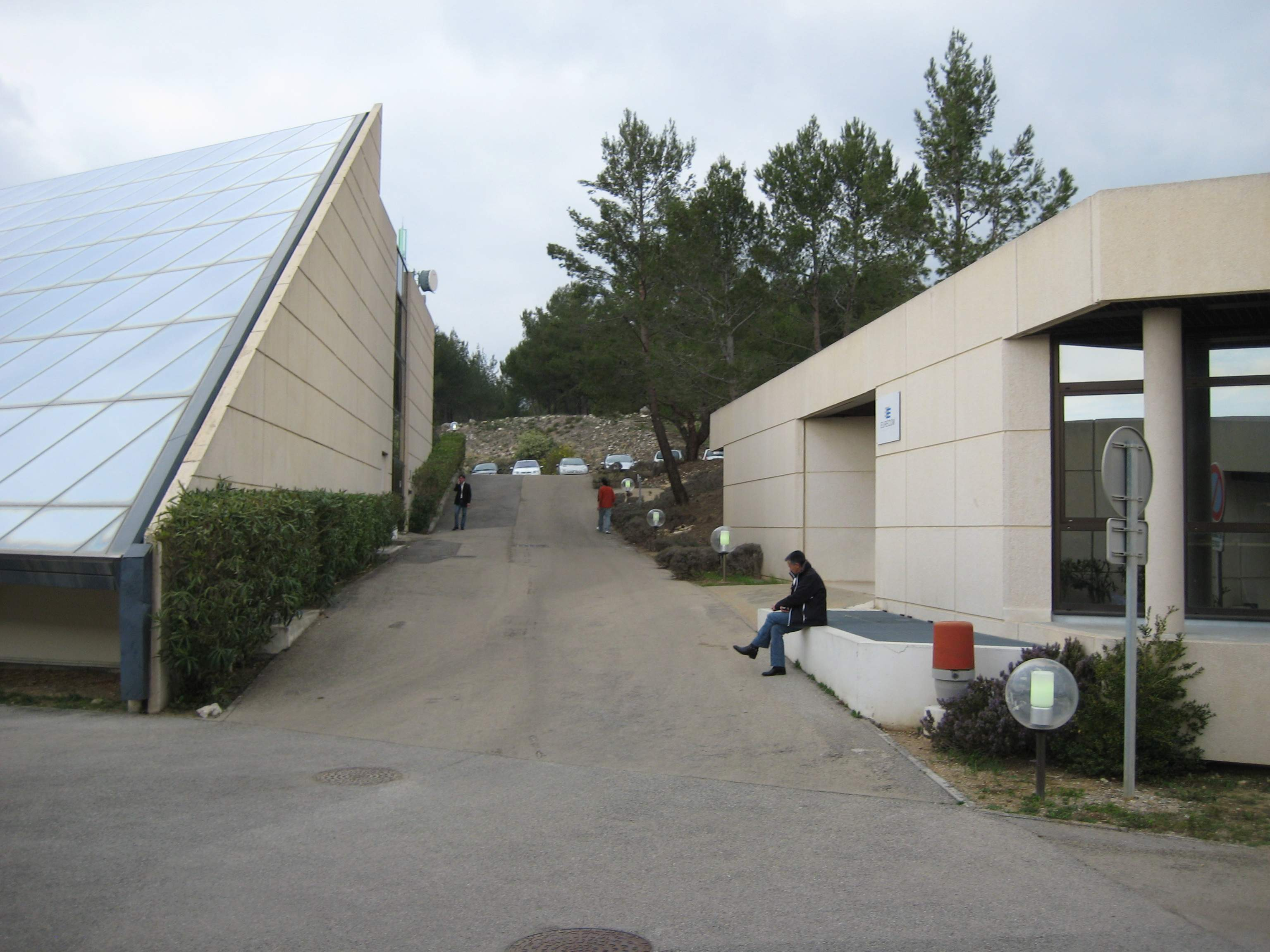 Eurécom central, picture taken from the main entrance